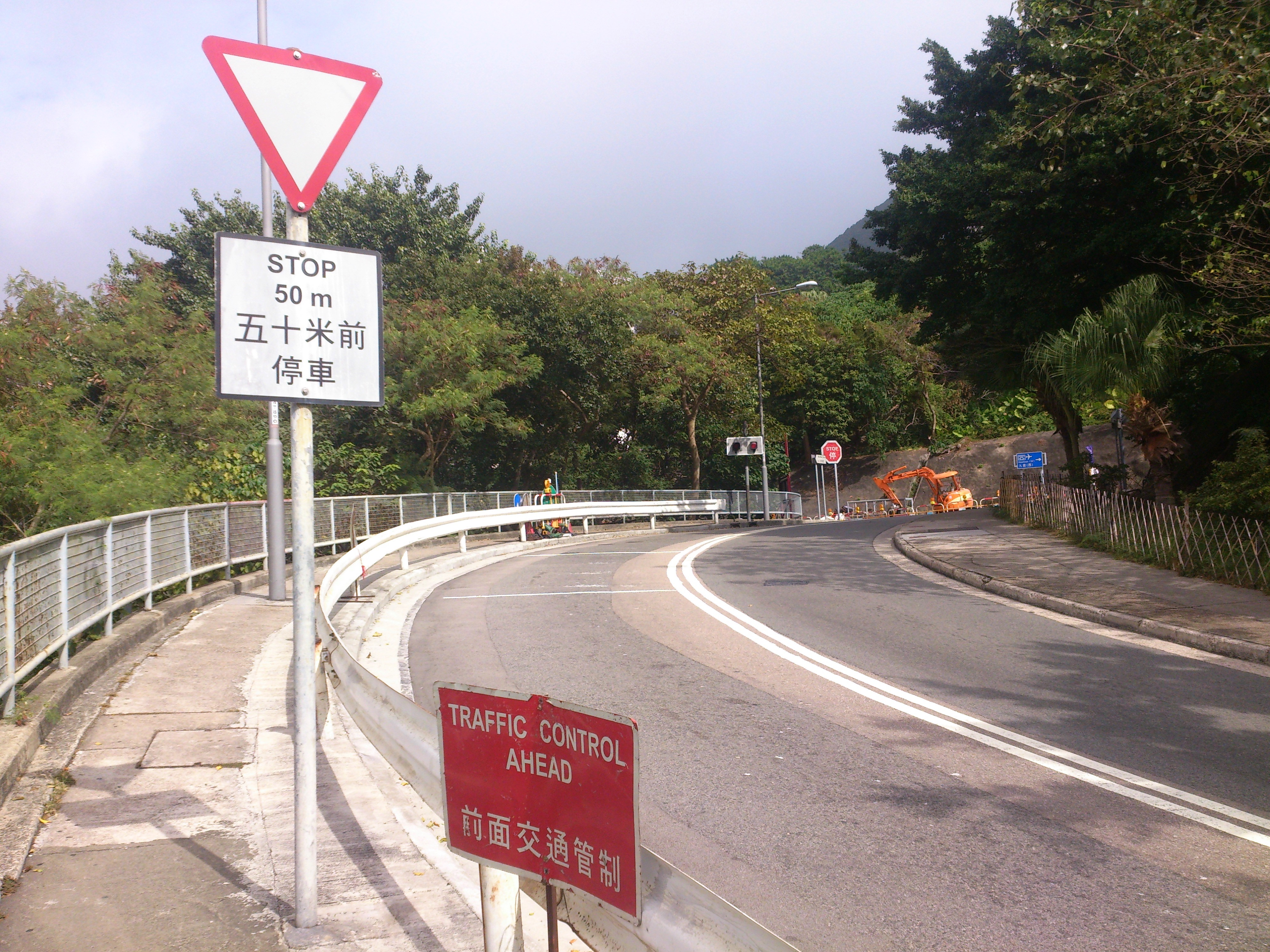 Sha Wan Drive near Victoria Road